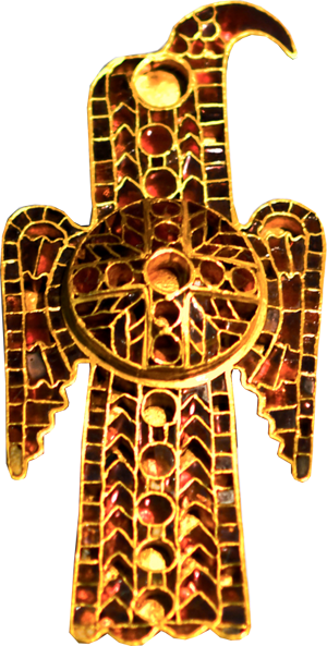 Derivative work, from this image , originally uploaded by user Pirkheimer. Intended to be used as an icon for infoboxes in articles involving Goths